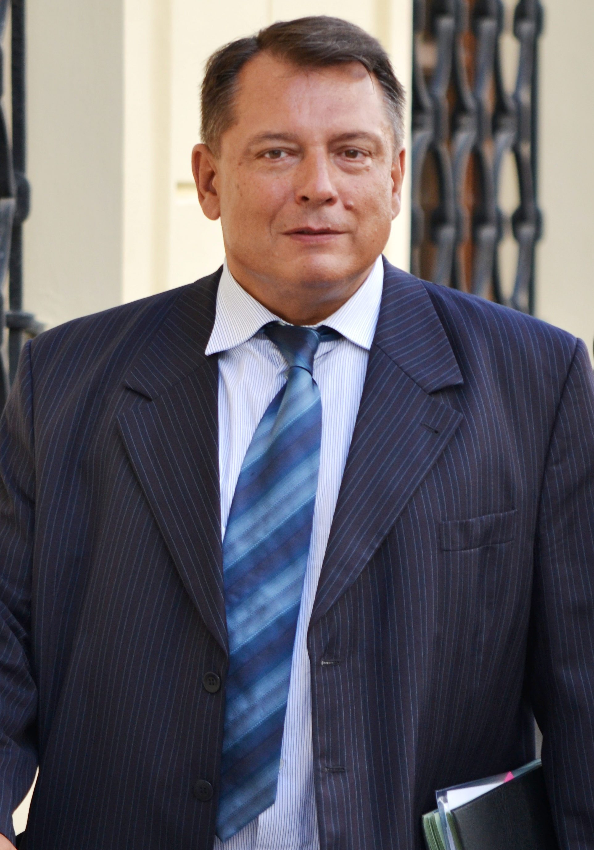 Jiří Paroubek, Member of the Czech Parliament